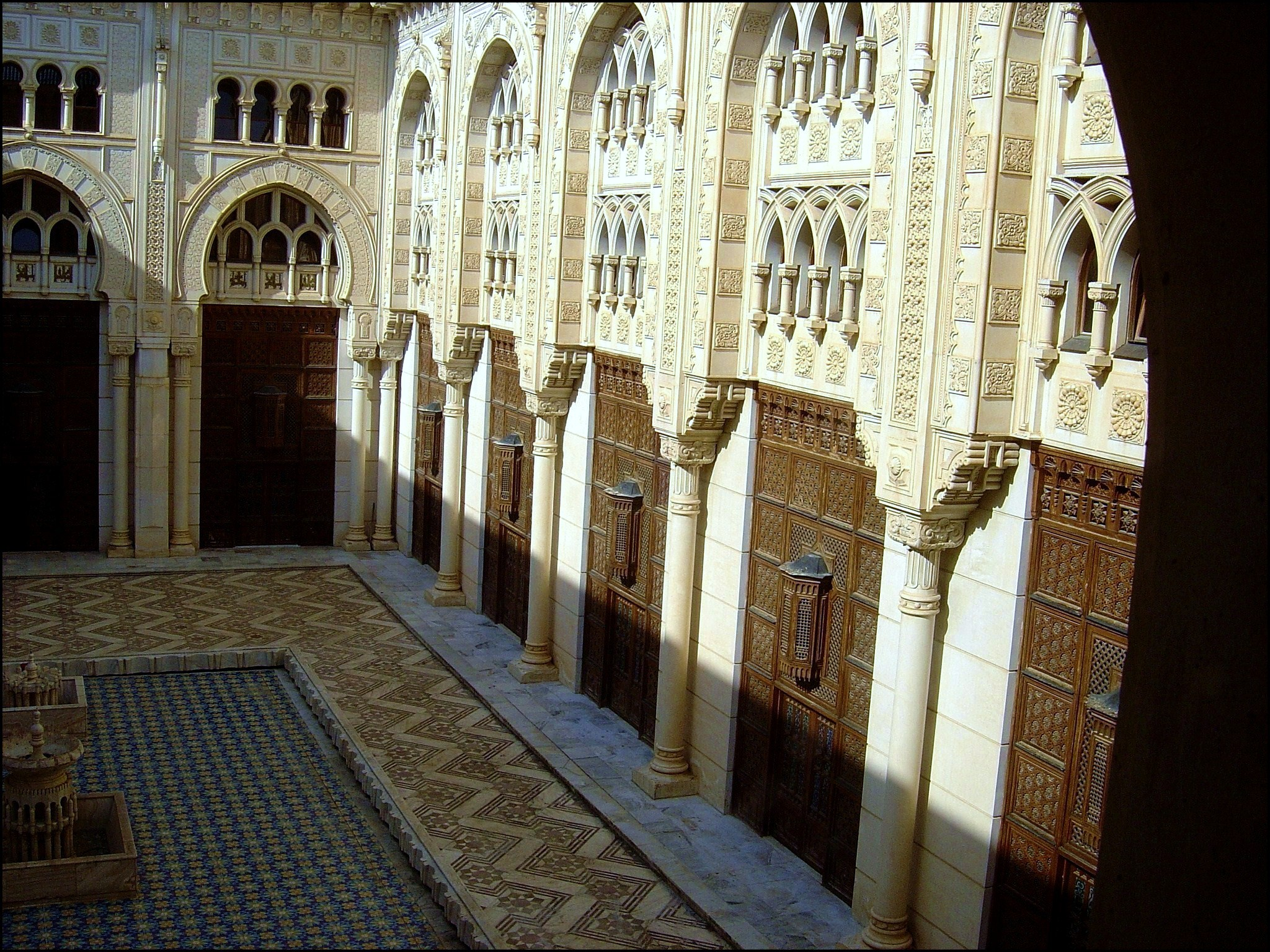 mosquee